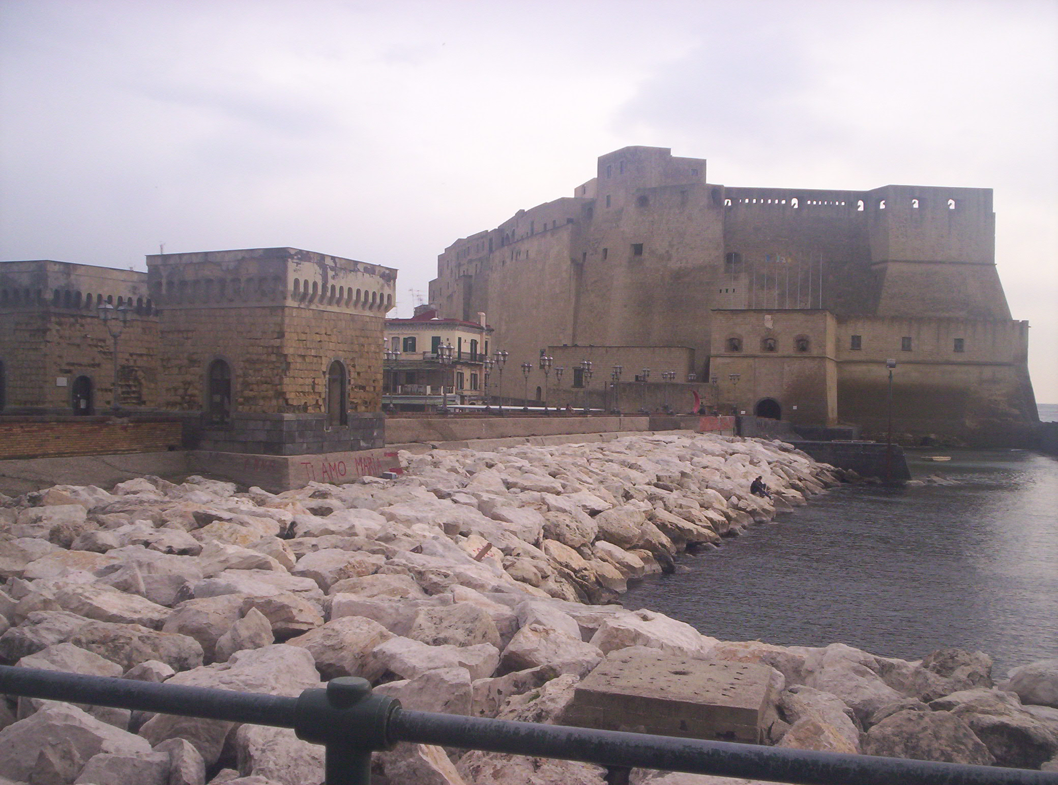 Created on 14 December 2005